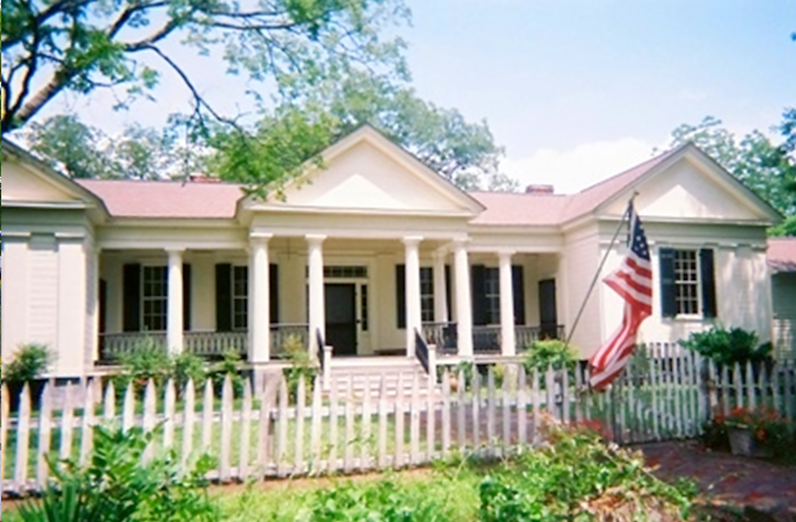 Aduston Hall in Gainesville, Alabama, a contributing property to the Gainesville Historic District, which is listed on the National Register of Historic Places. Owned and operated by the Sumter County Historical Society as a welcome/visitors center for the Gainesville Historic District.